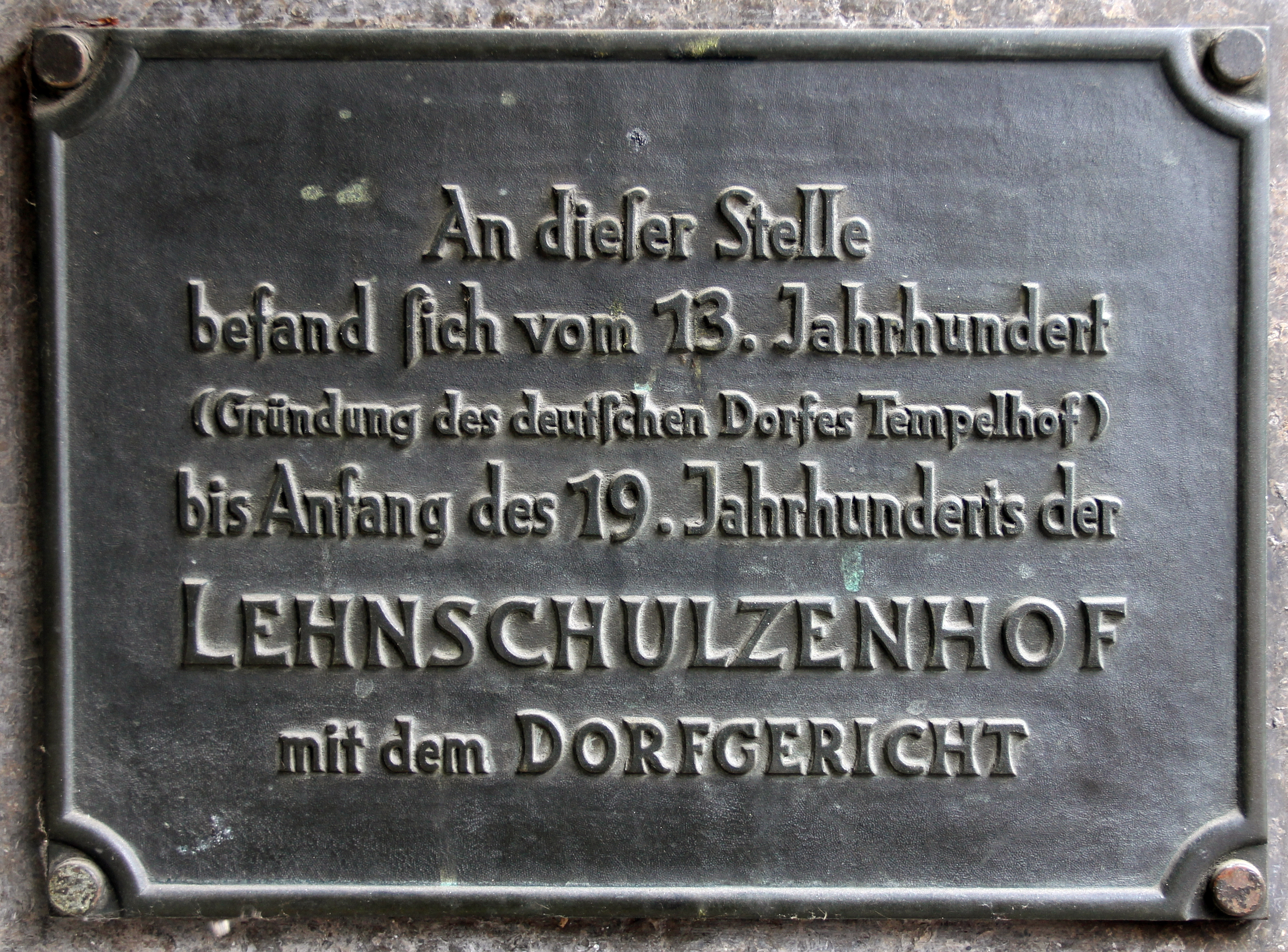 Memorial plaque, Lehnschulzenhof, Alt Tempelhof 21, Berlin-Tempelhof, Germany